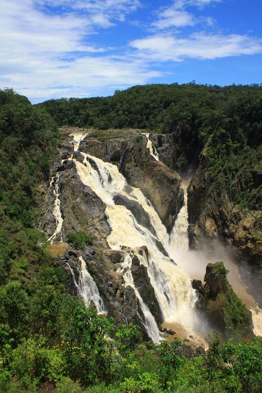 Barron Falls (Local Aboriginal Name = Din Din) fresh after wet season rains in Tropical North Queensland, Australia.